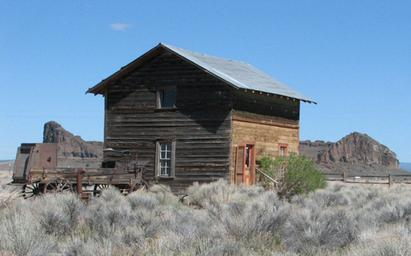 Fort Rock Valley Homestead Museum, Belletable House with Fort Rock in the background